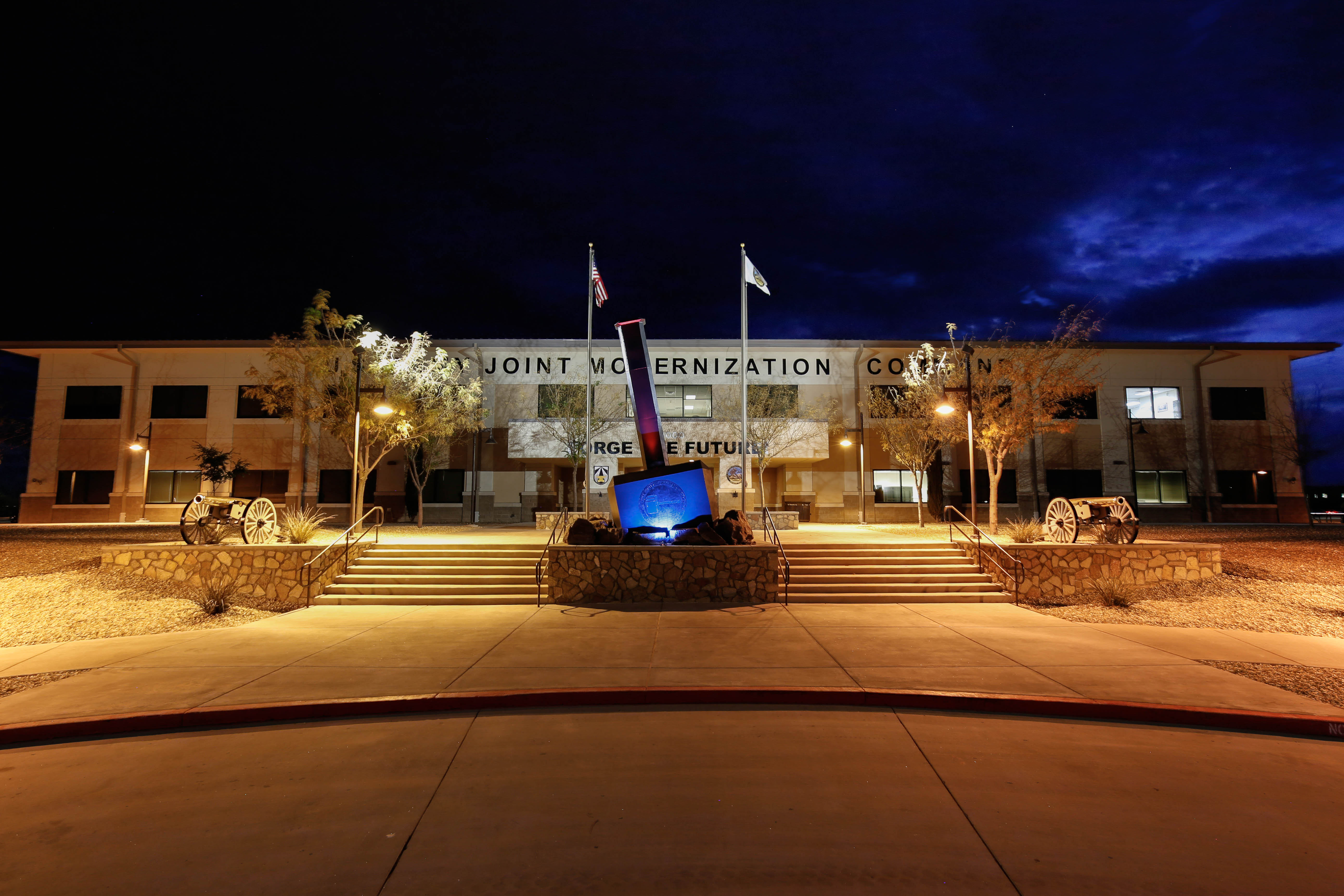 A beautiful night photo in Fort Bliss, Texas